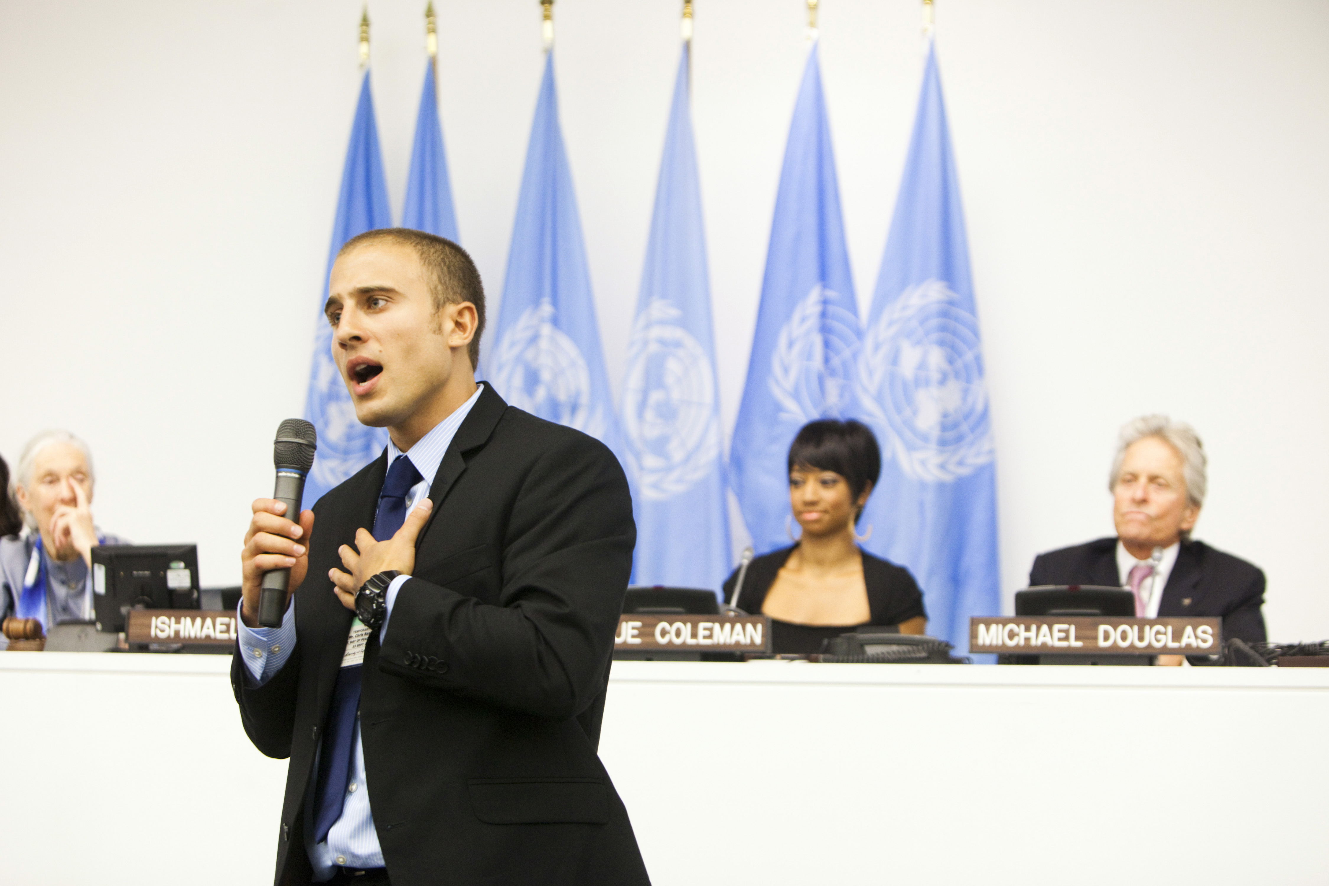 UN_091511-Student Conference with Chris Bashinelli, Stevie Wonder, Micheal Douglas, Jane Goodall, Yuna Kim, Ishmael Beah, Monique Coleman and others.